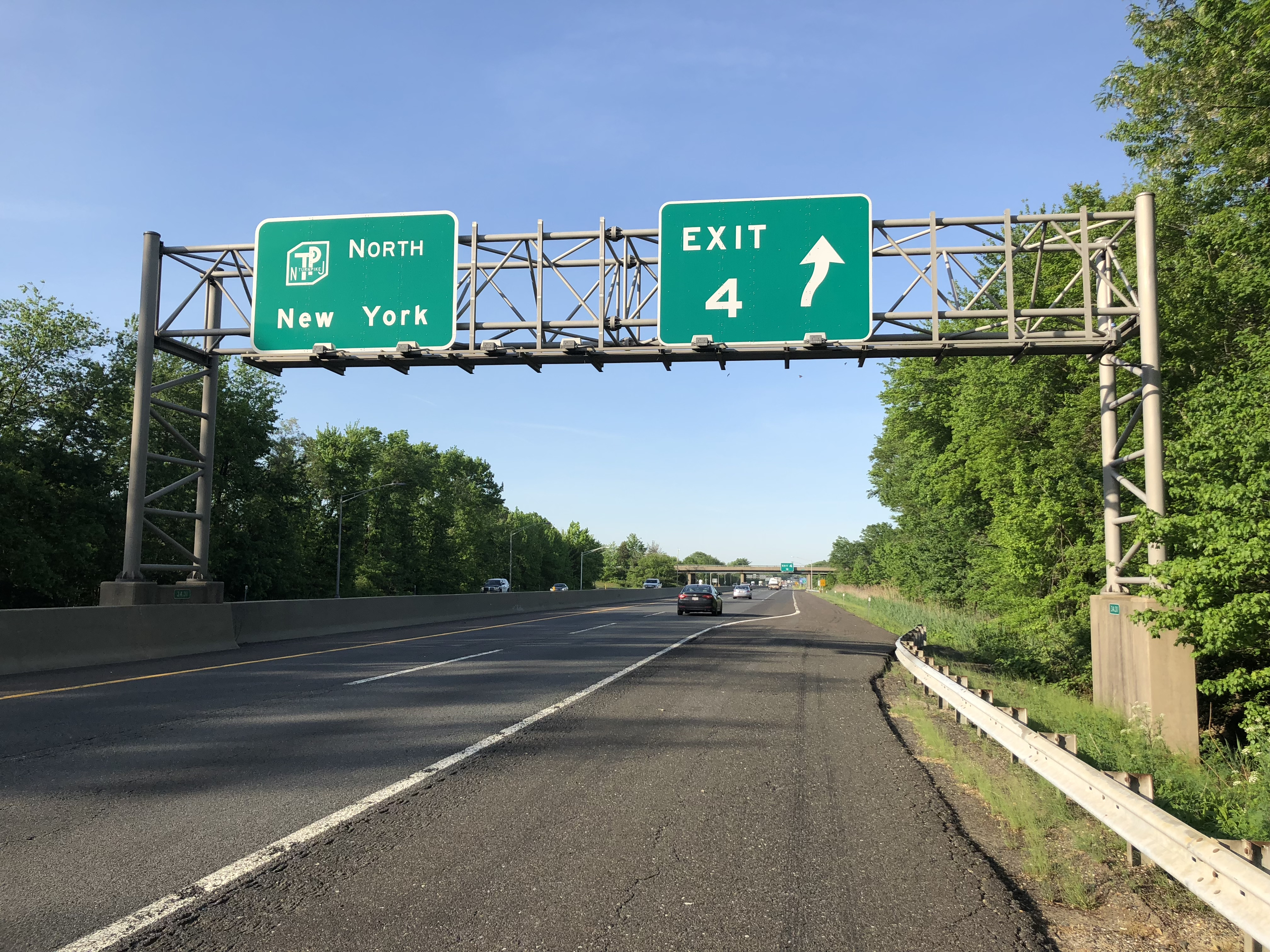 View north along New Jersey State Route 700 (New Jersey Turnpike) just south of Exit 4 in Mount Laurel Township, Burlington County, New Jersey